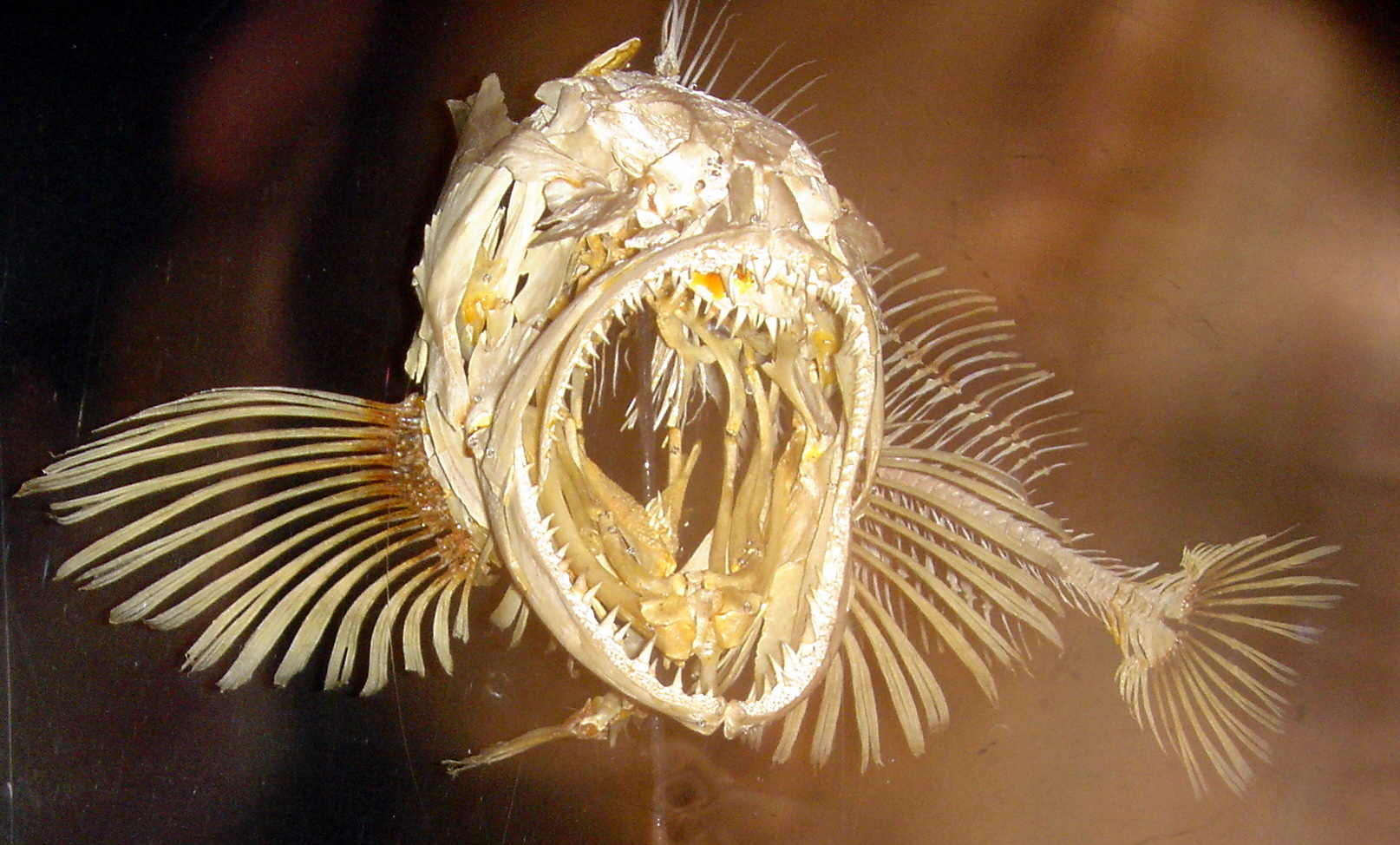 The skeleton of a Lingcod (Ophiodon elongatus) at the Monterey Bay Aquarium.